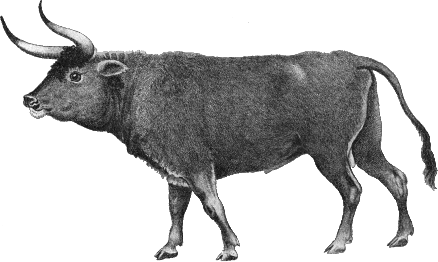 Auroch with blank outline